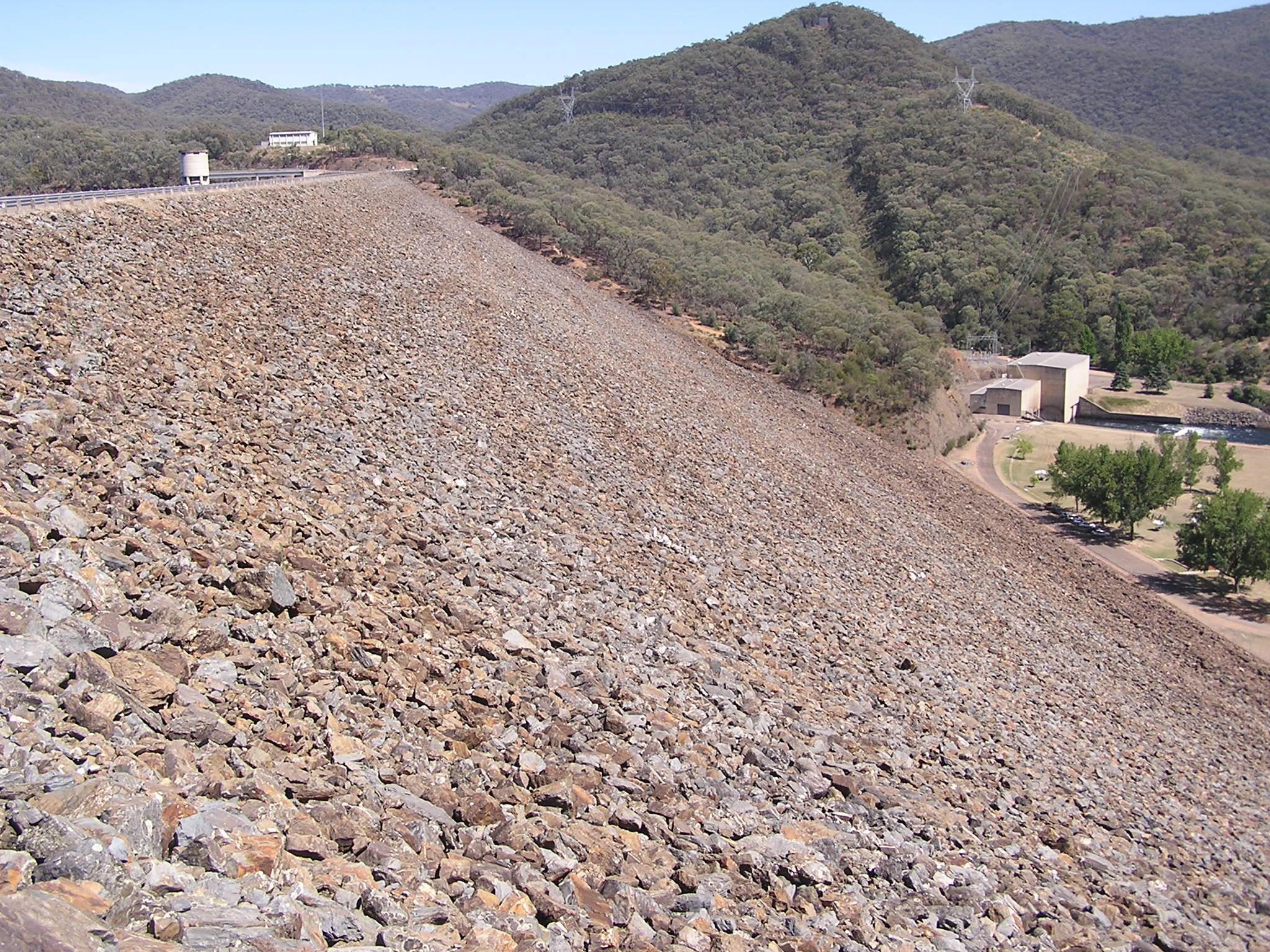 The wall of Blowering Dam, New South Wales, Australia which dams the Tumut River